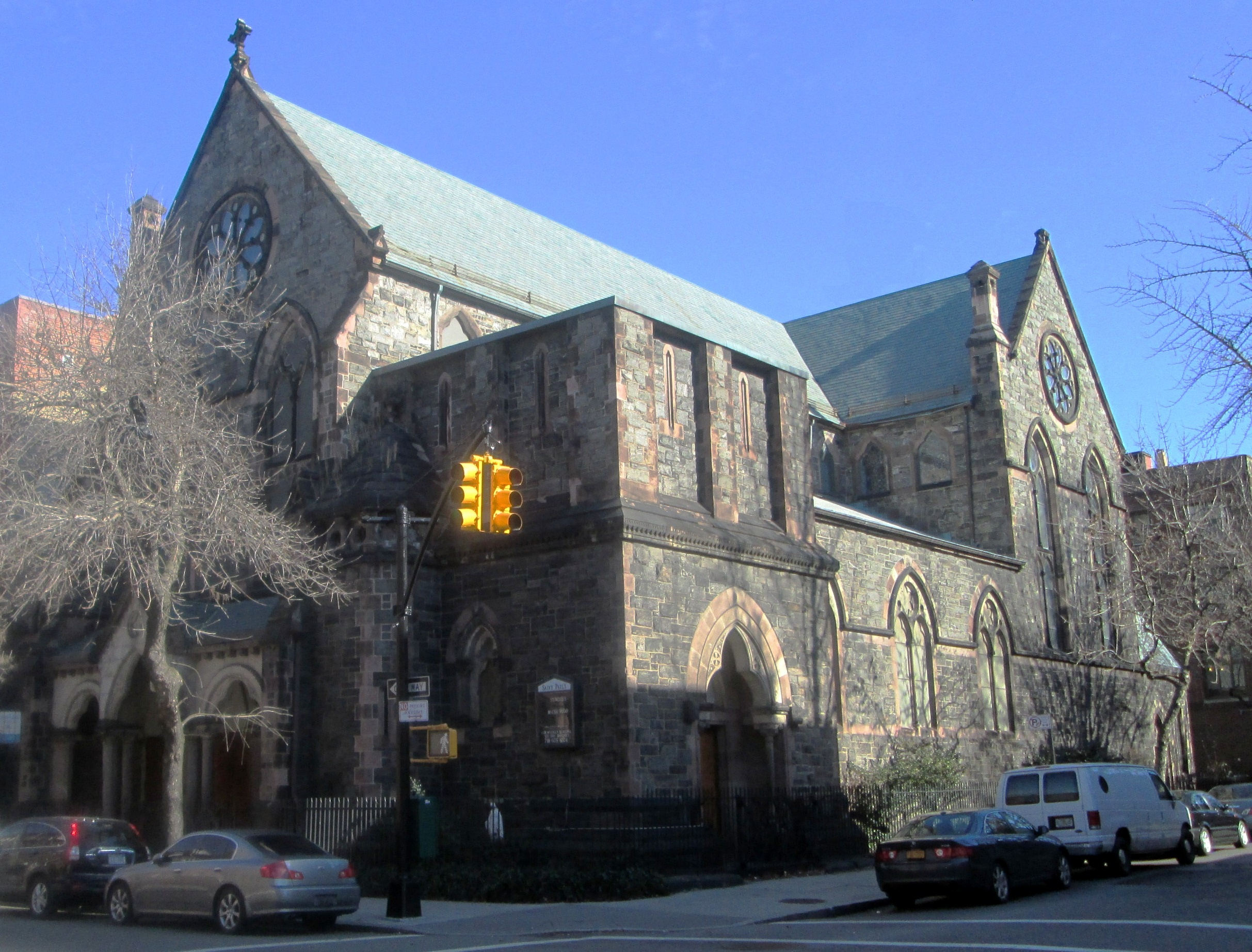 St. Paul's Episcopal Church of Brooklyn at 423 Clinton Street at Carroll Street in the Carroll Gardens neighborhood of Brooklyn, New York City was built 1867-1884 and was designed by Richard Upjohn & Son in the high Victorian Gothic style. (Source: AIA Guide to NYC (5th ed.))